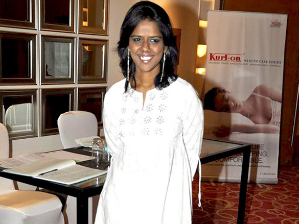 Mahalakshmi Iyer at the launch of the Srinivas album Timeless